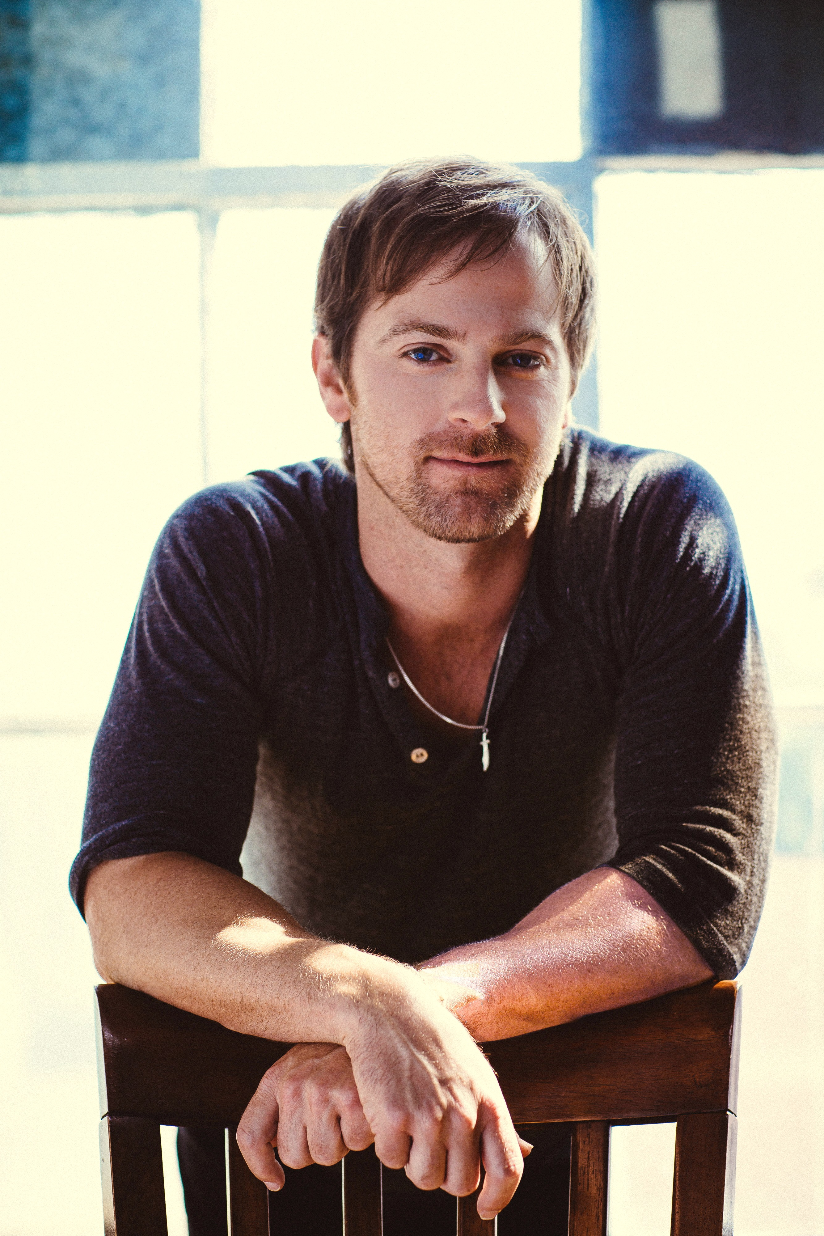 Kip Moore 2013 photo